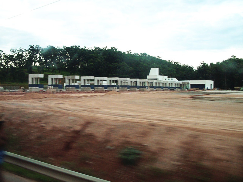 Construction of Castelo Branco Highway tollbooths.